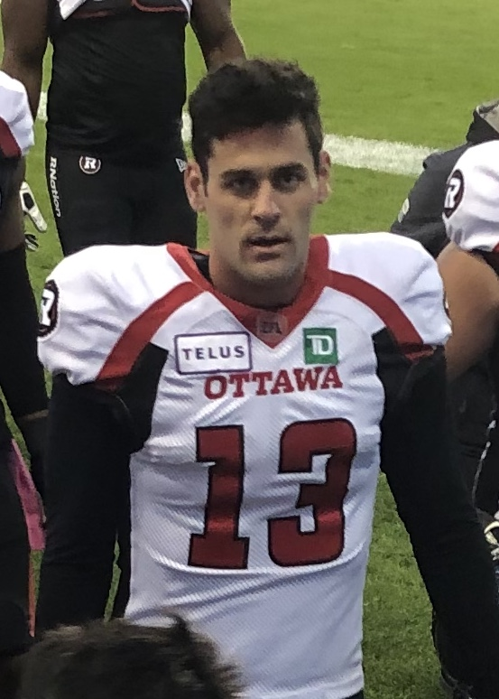 Richie Leone, punter for the Ottawa Redblacks.